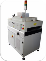 UV200 SMEMA Inline UV Conveyor for curing conformal coatings, lacquers and adhesives